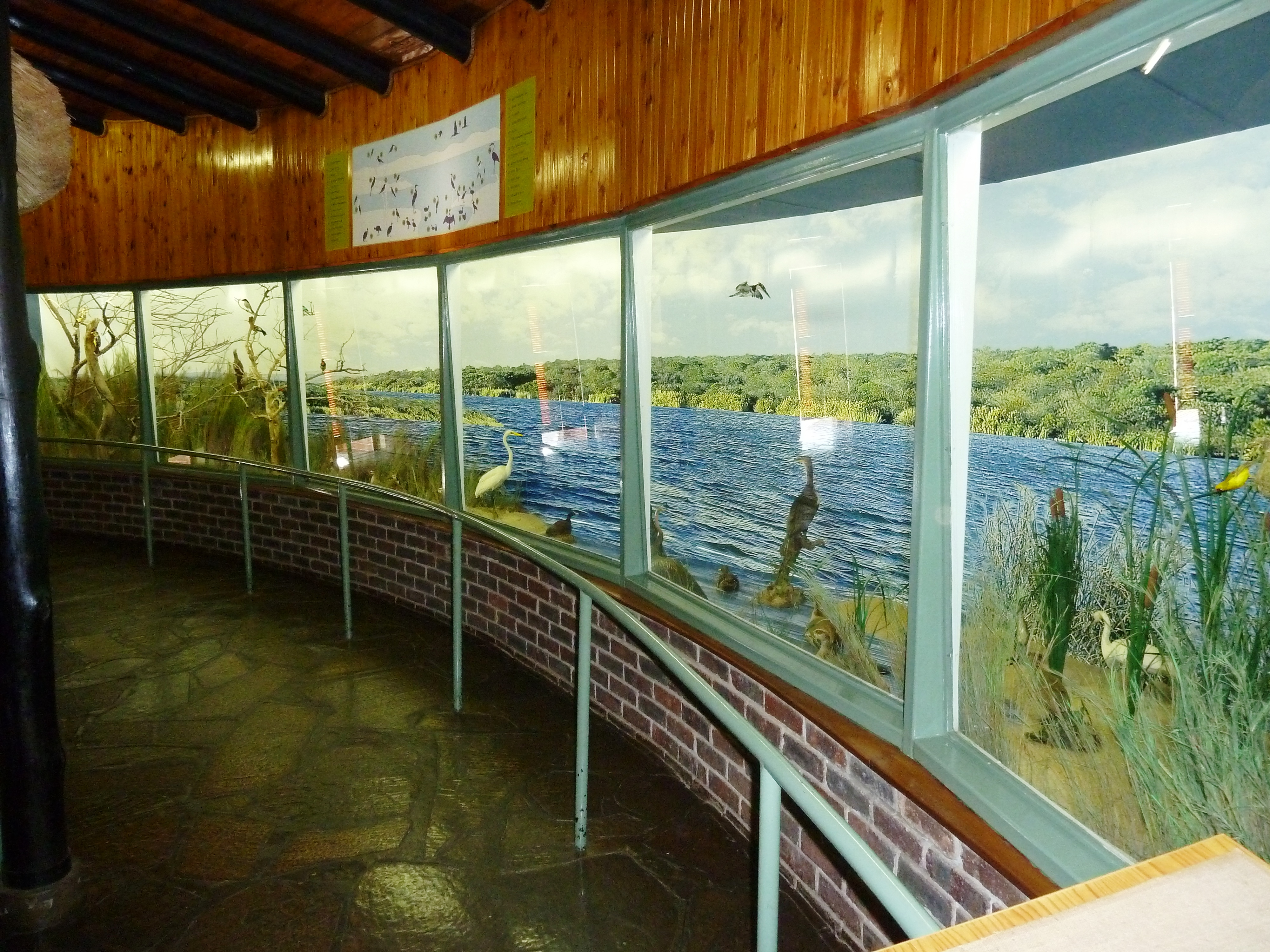 Diorama at the visitor's entrance to Austin Roberts bird sanctuary that illustrates some mammal and bird species